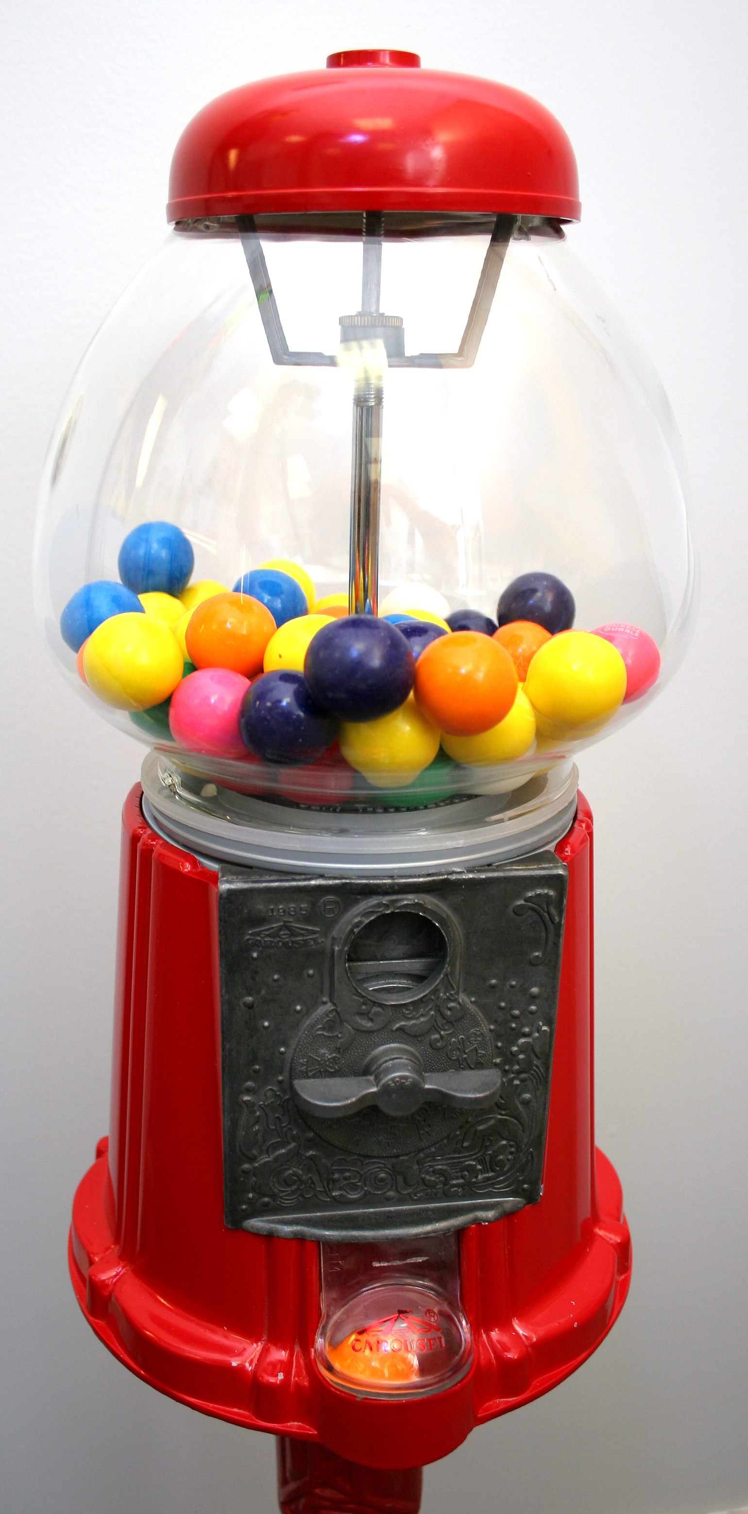 The gumball machine is now at work but does not work that well.